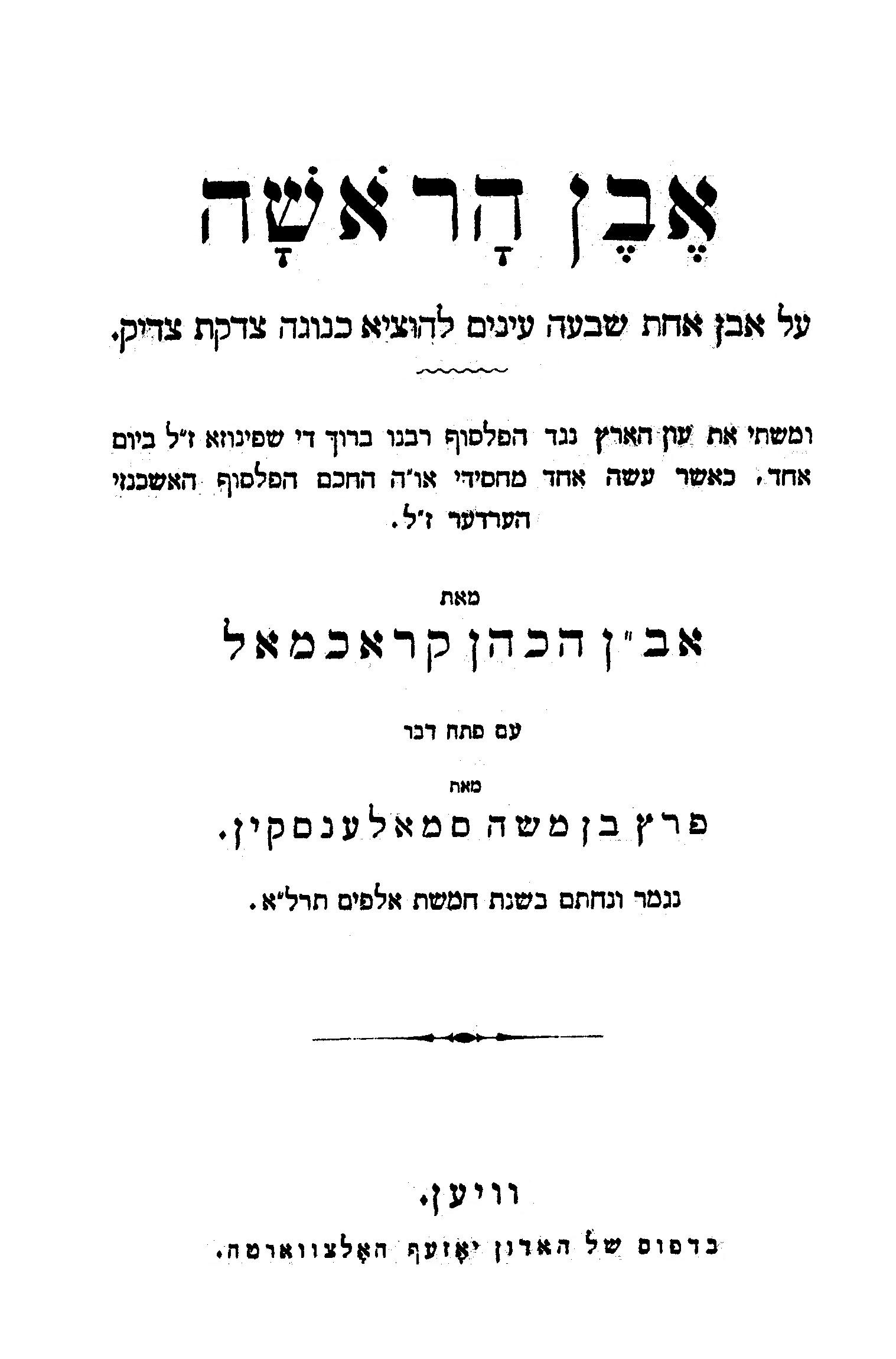 Front Page of Abraham Krochaml's "Even Ha-Rosha", Vienna 1871